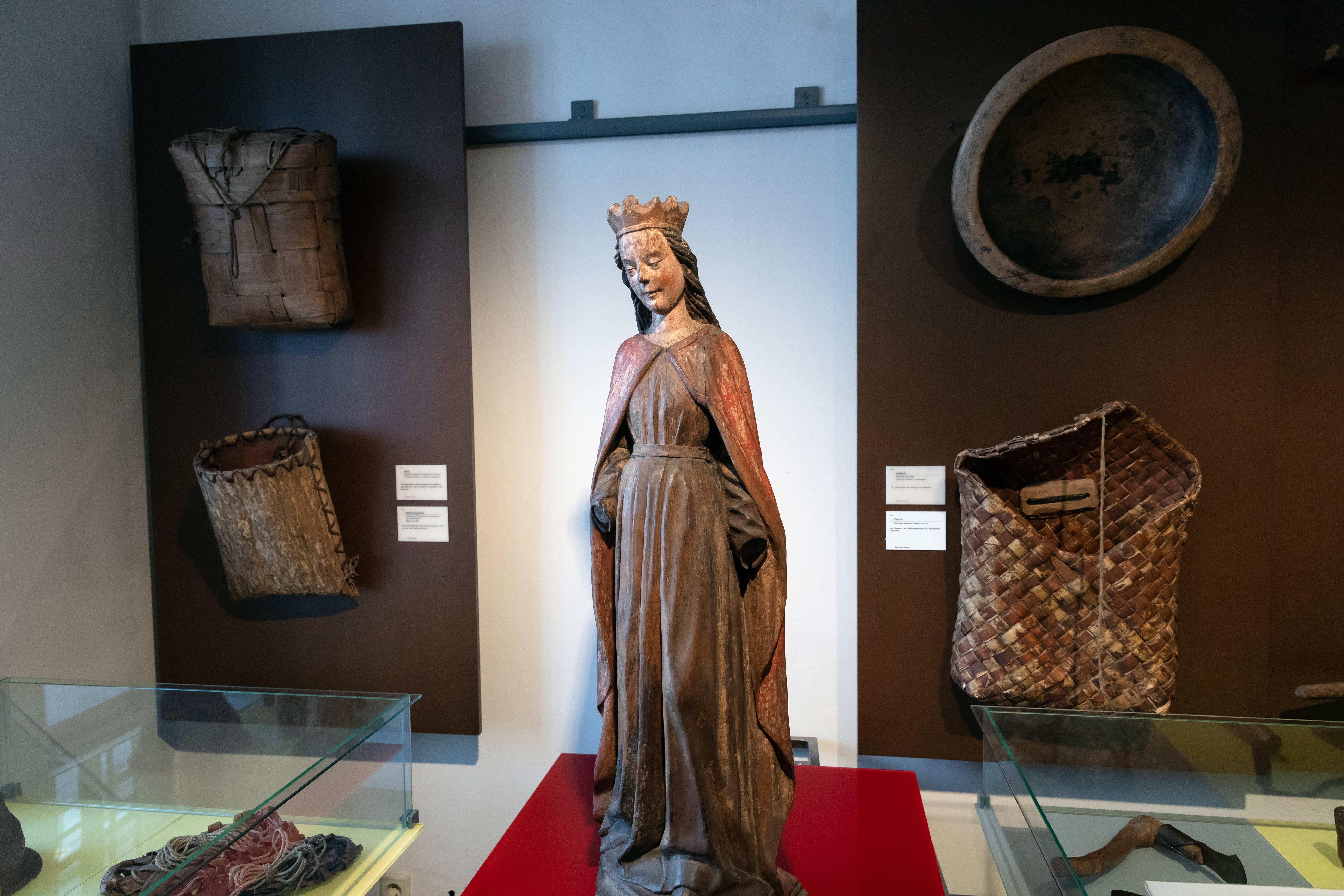 Madonna (lime tree, propably Tyrol or Styria, around 1500) at the Austrian Museum of Folk Life and Folk Art at Palais Schönborn, Vienna, Austria.